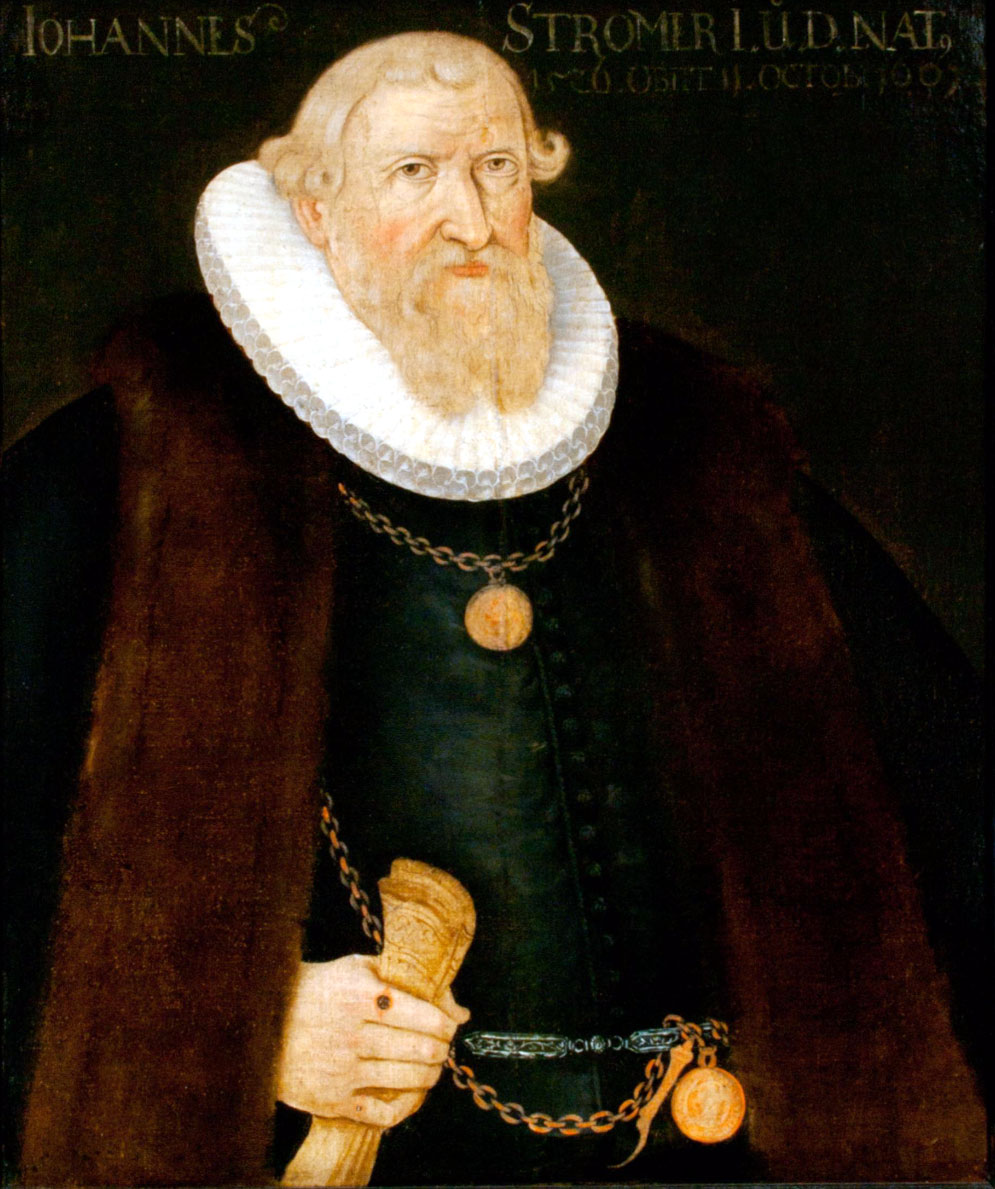 Johannes Stromer (1526-1607) German Jurist